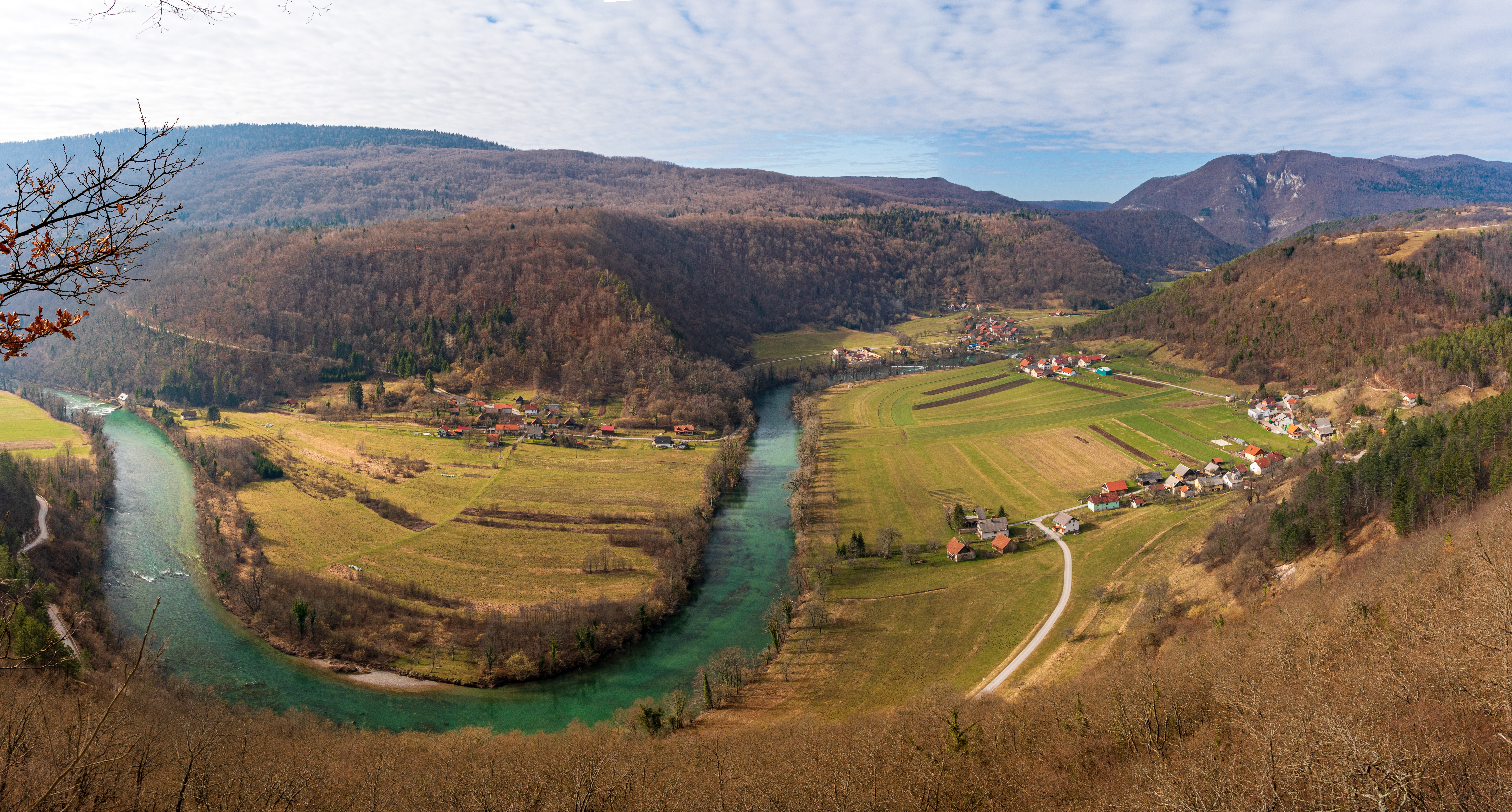 The Valley of Kolpa river in Bela krajina, southeastern Slovenia. Photograph was taken from Sodevska stena, a cliff above the village of Sodevci. On the right of the photo, Kozice, a 754 meter high hill is visible, with a TV and radio transmitter. The southern part of the photograph is Slovenia, the northern is Croatia.